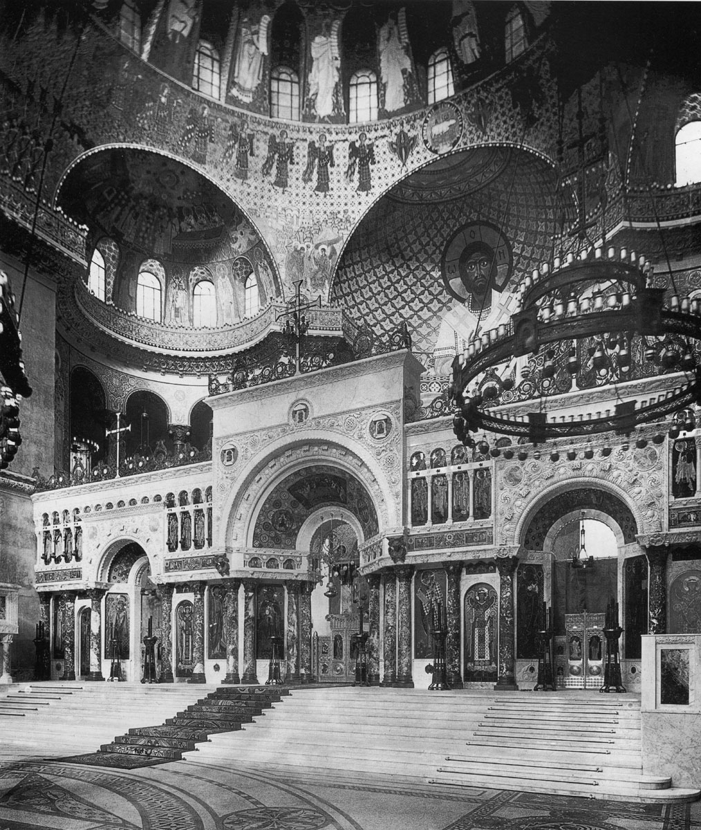 Original interiors of the Naval Cathedral in Kronstadt by Vasily and Georgy Kosyakov